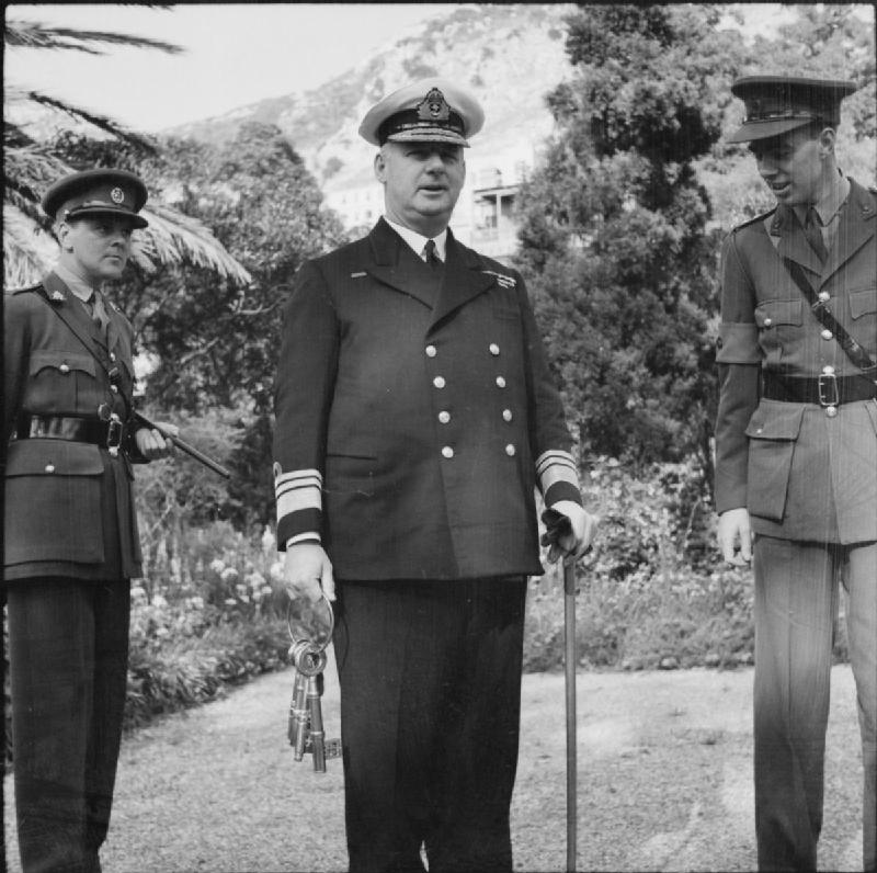 The Royal Navy during the Second World War A three-quarter length portrait of Vice Admiral Sir Frederick Edward-Collins, Commander North Atlantic, in the gardens of Government House with the keys of the Fortress of Gibraltar after being appointed Acting Governor and Commander in Chief of the Fortress of Gibraltar in the absence of His Excellency Lord Gort, who has been appointed Governor and Commander-in-Chief of Malta.